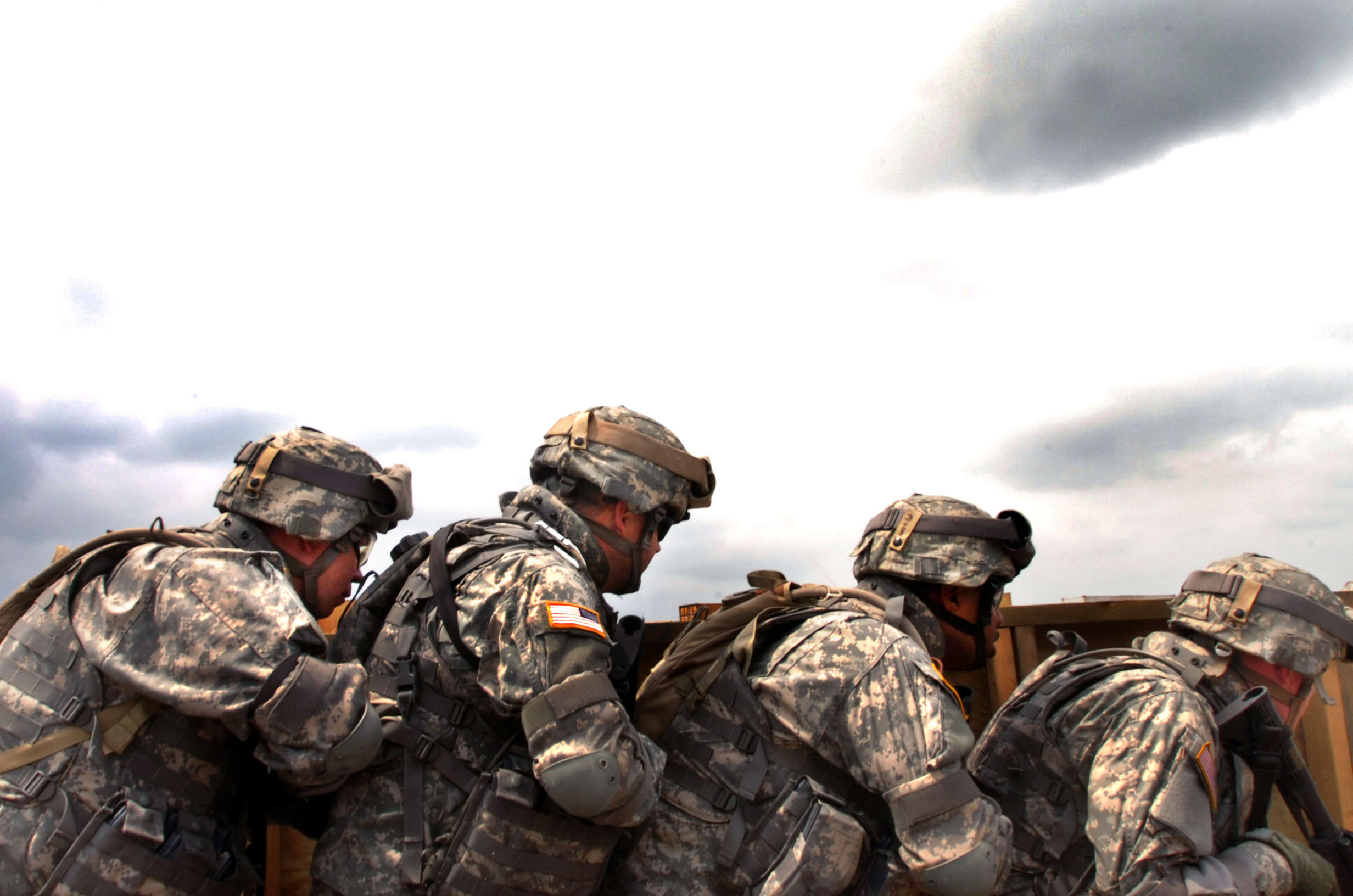 U.S. Army Soldiers assigned to Headquarters and Headquarters Company, 58th Infantry Brigade Combat Team (IBCT) practice room clearing procedures during training on military operations in urban terrain at Fort Dix, N.J., May 11, 2007. The 58th IBCT is training at Fort Dix in preparation for a deployment to Iraq. (U.S. Army photo by Staff Sgt. Jon Soucy)